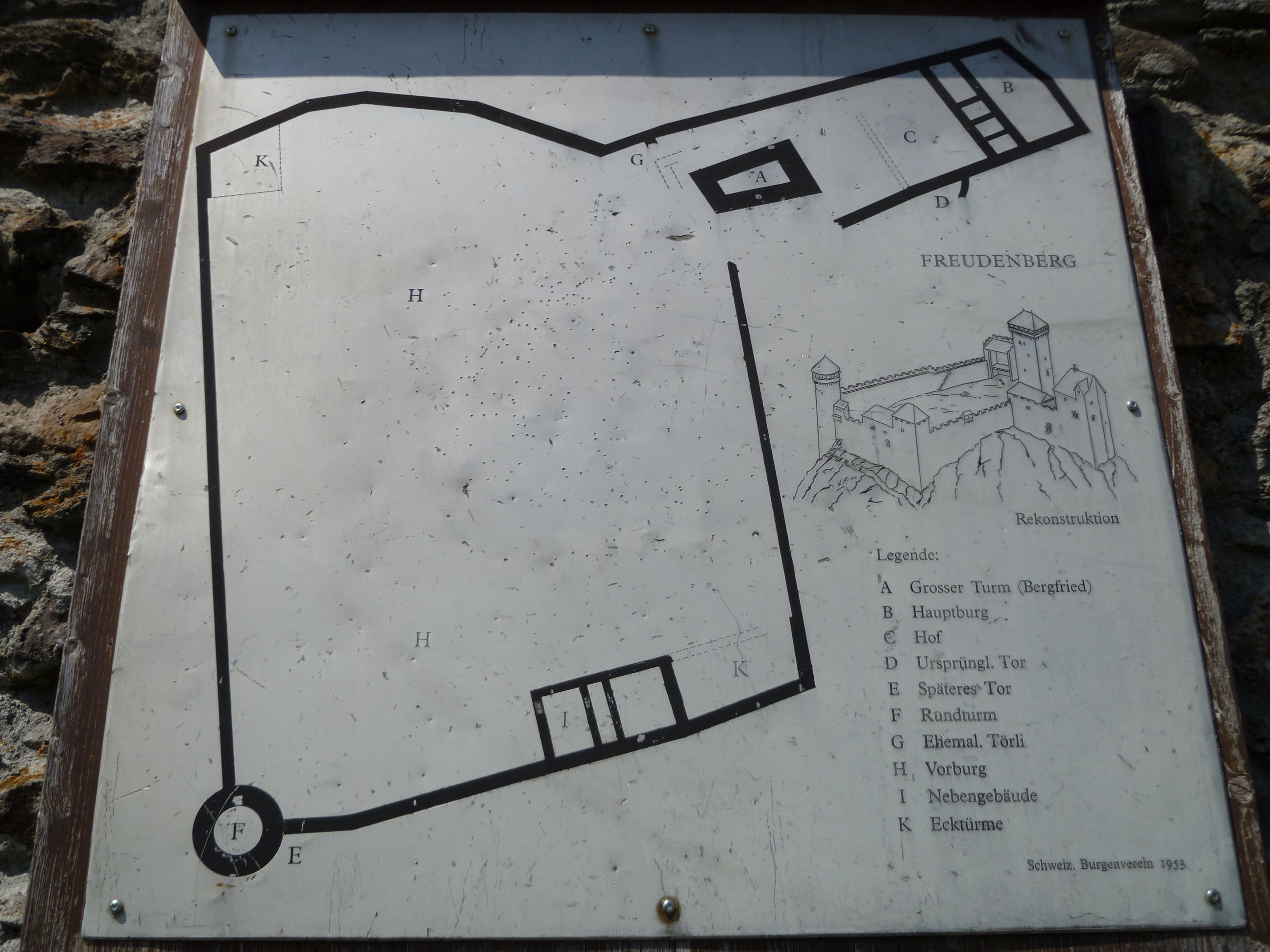 PlanCastle